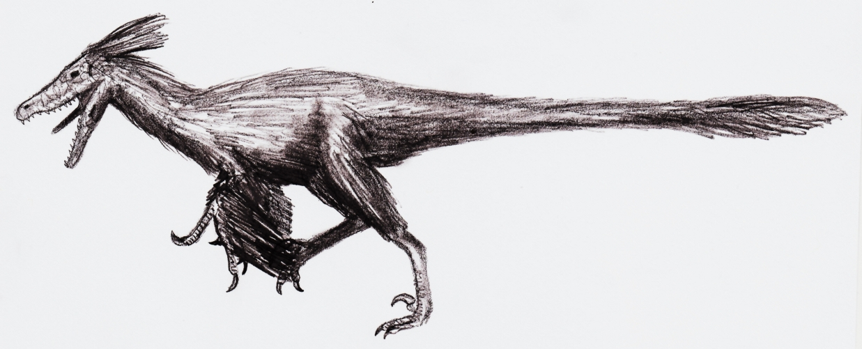 Linheraptor